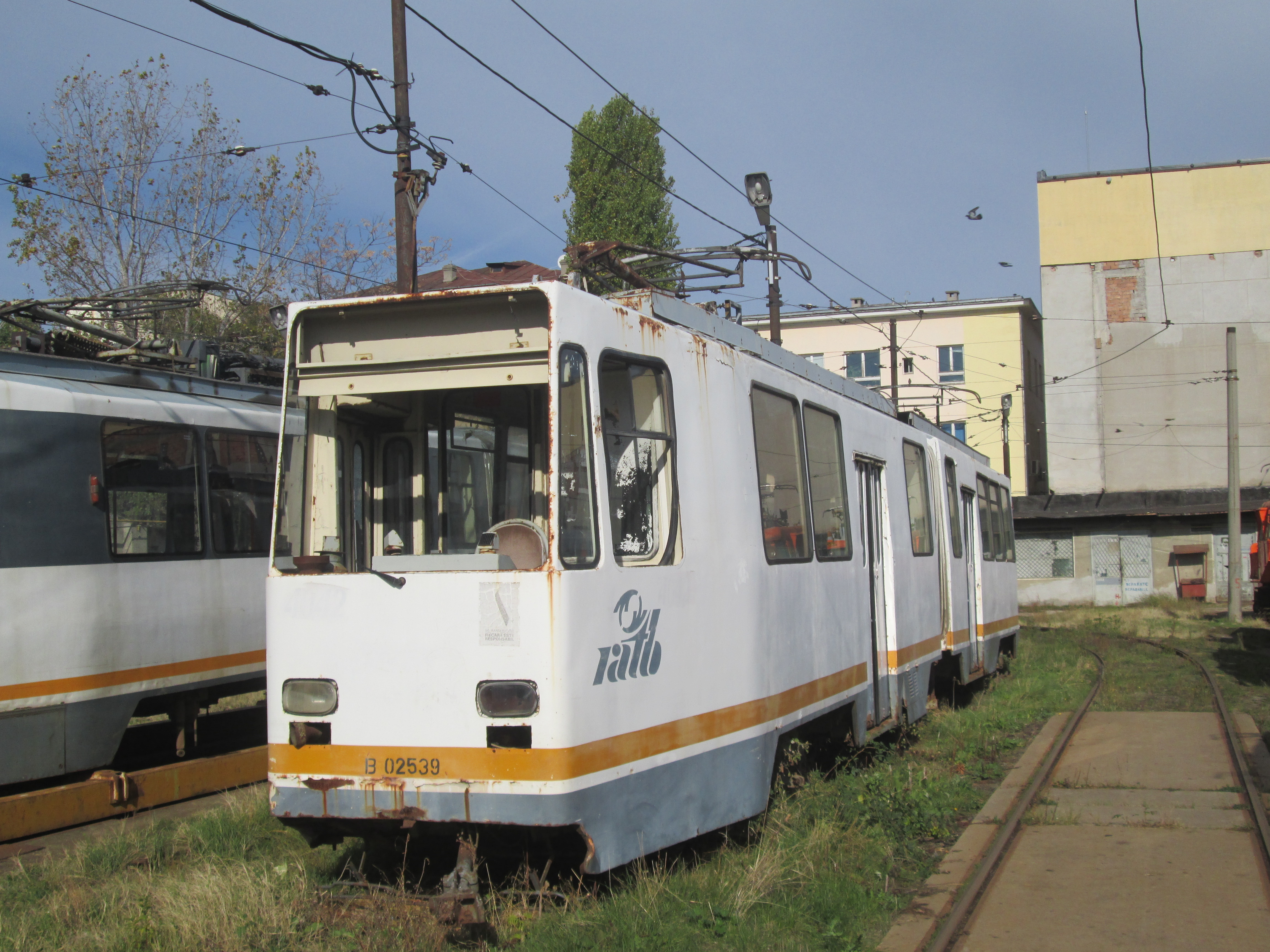 Tram number 4042 (type V2B) in Victoria tram depot. As of now it is pretty much a wreck rusting away, but it has been kept as the sole survivor of the V2A/V2B class of trams, hopefully it will be restored to its original condition when it was brand new in 1986.